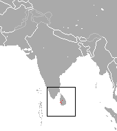 Jungle Shrew (Suncus zeylanicus) range